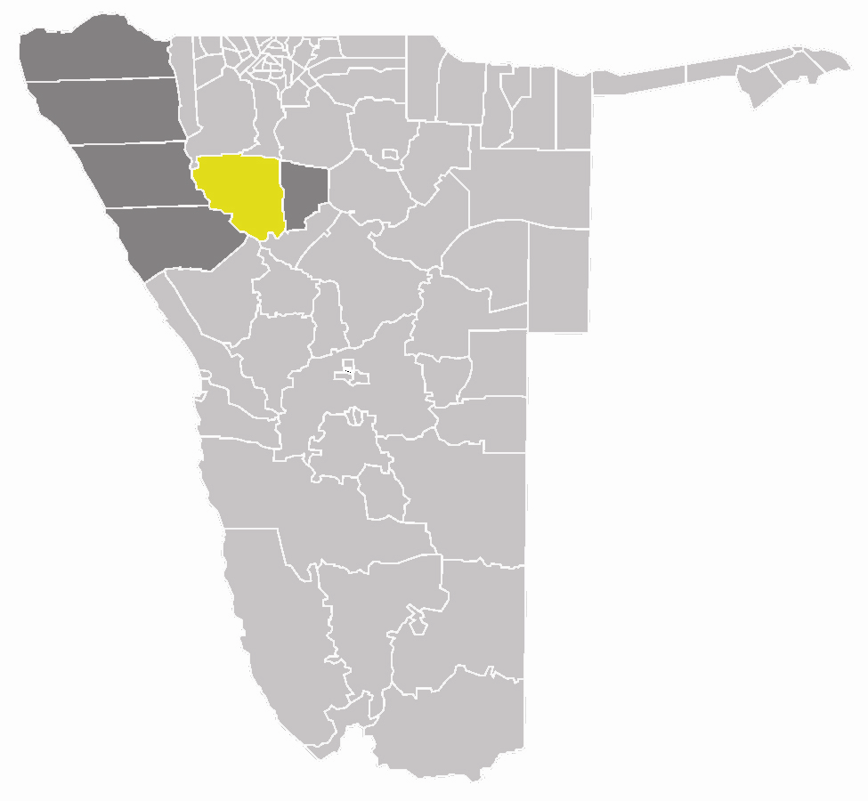 map of the Kamanjab constituency within the Kunene region, Namibia